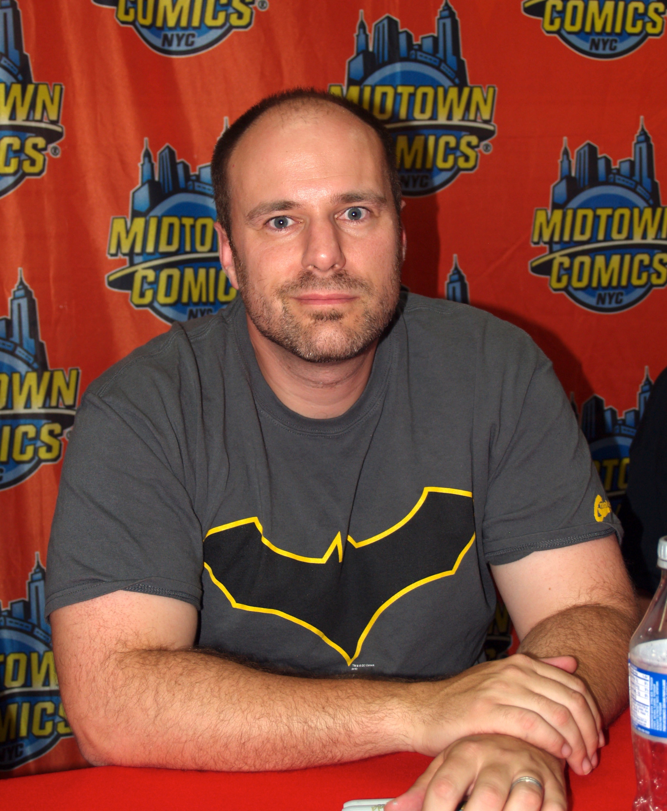 Comics writer Tom King during an appearance at Midtown Comics Downtown September 17, 2016, the third annual Batman Day, when DC Comics celebrates the creation of the character Batman. This photo was created by Luigi Novi. It is not in the public domain, and use of this file outside of the licensing terms is a copyright violation.